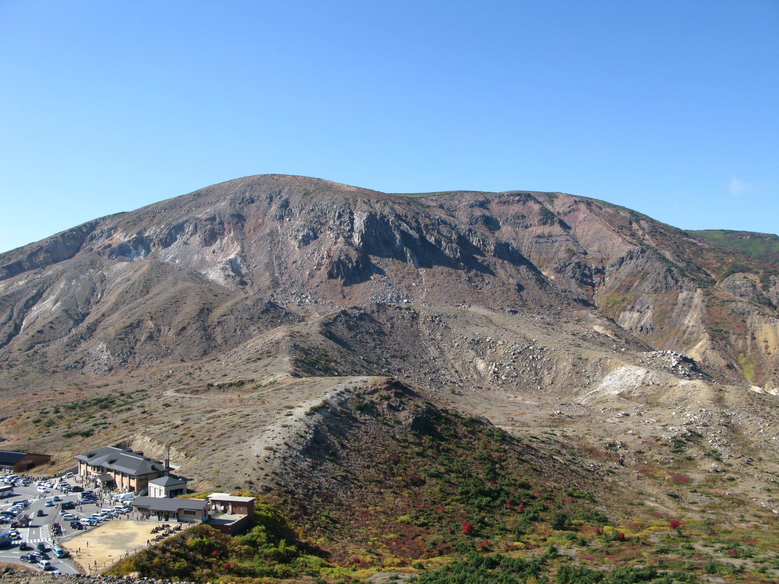 Mount Issaikyō, view from Mount Azuma-kofuji in Fukushima prefecture.